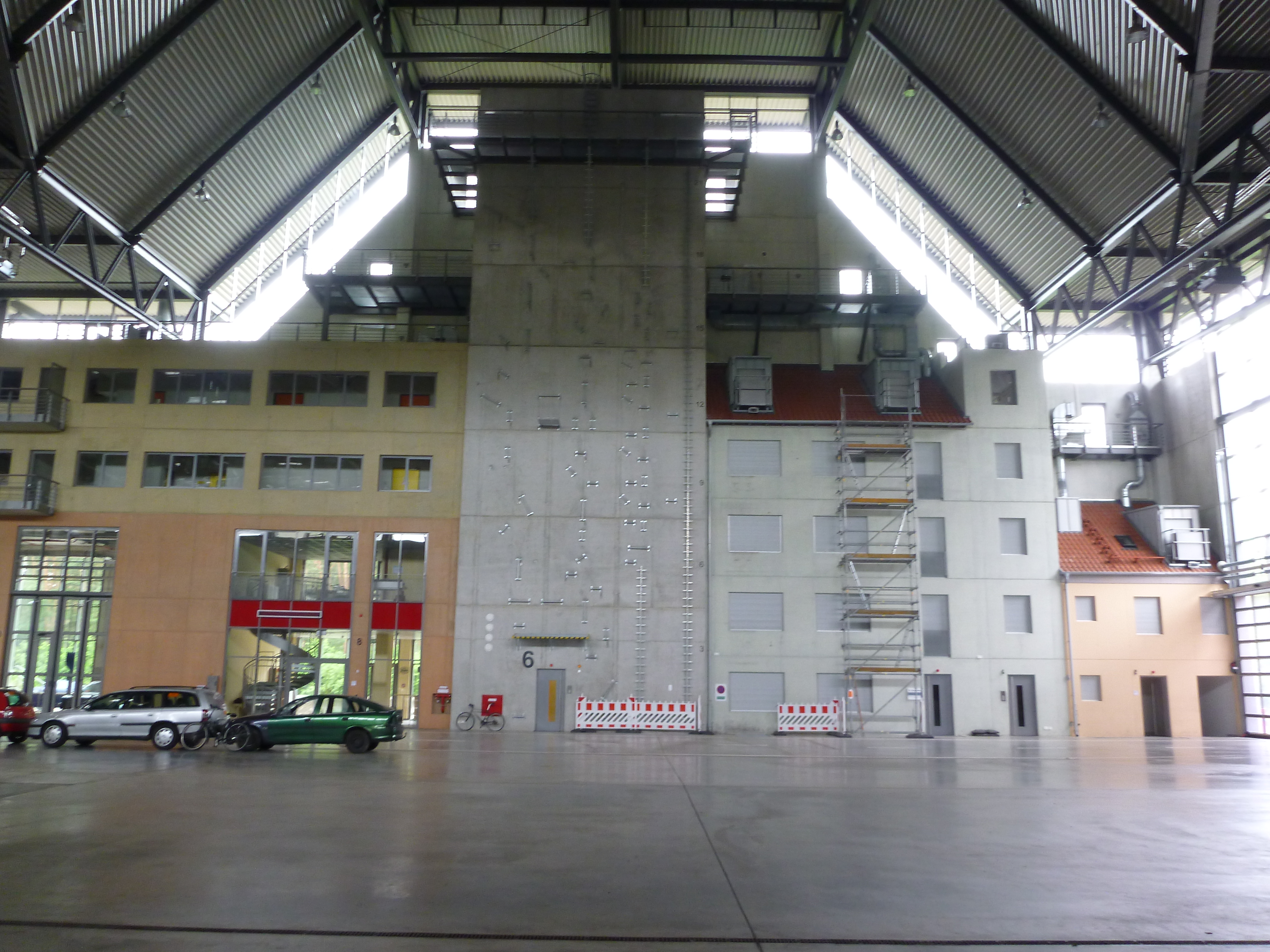 Hall for practise of the IdF in Münster